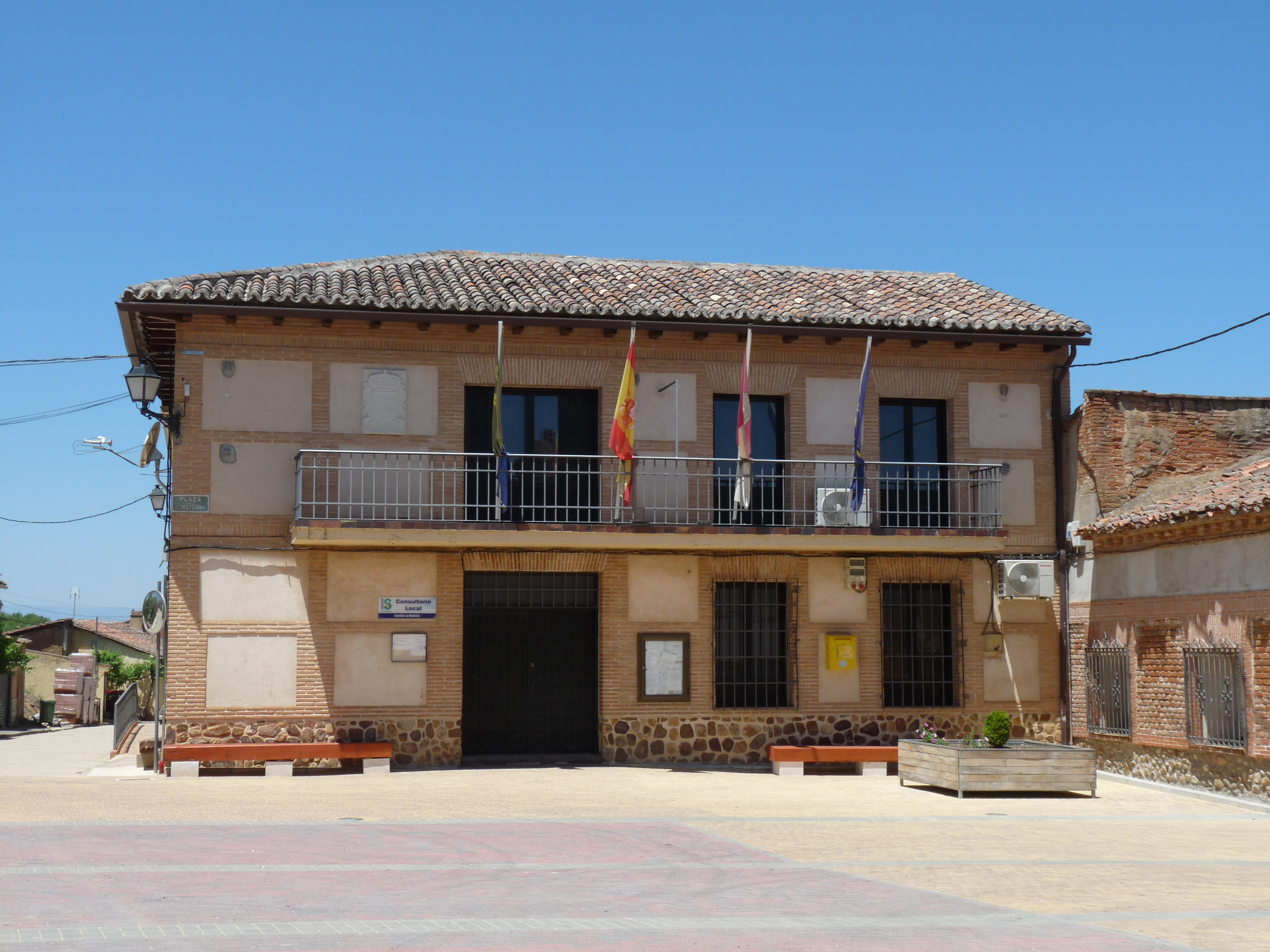 Town Hall of Matarrubia, Guadalajara, Castile-La Mancha, Spain.